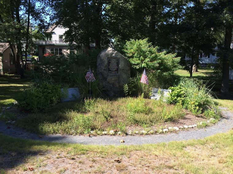 A memorial for Praying Indians that served in the Revolutionary War in Natick, MA.